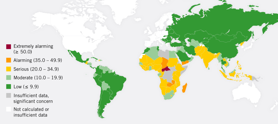 Map depicting the 2019 GHI Scores